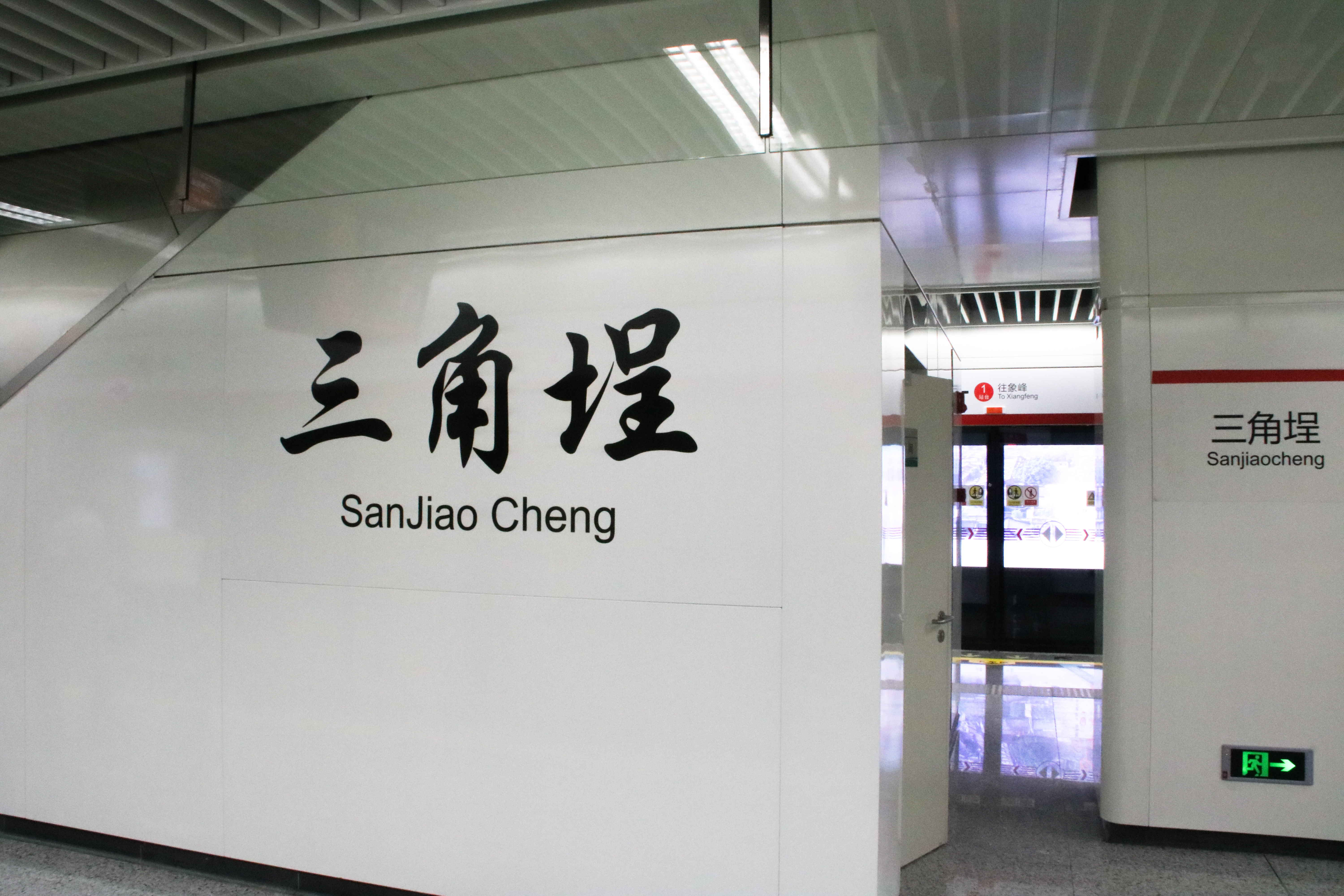 Nameplate of Sanjiaocheng Station